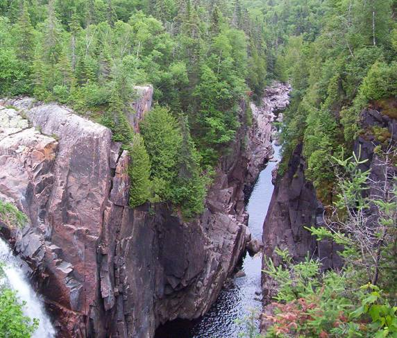 Aguasabon Gorge & Falls near Terrace Bay, Ontario My own photo